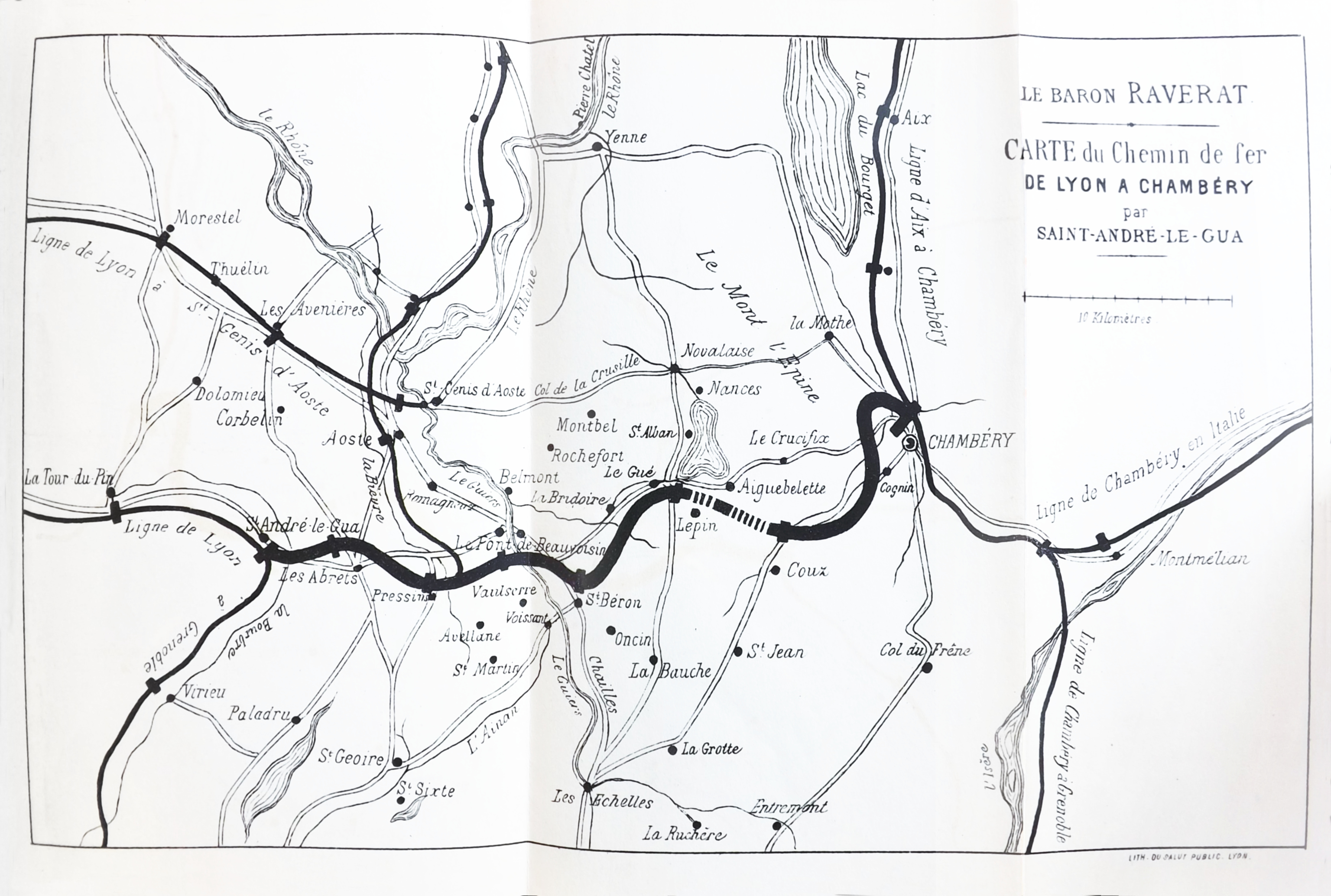 Map of Saint-André-le-Gaz to Chambéry railway line opened in 1884, published by Achille Raverat in 1885.